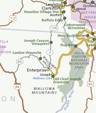 Map of the Nez Perce National Historical Park visitor stop locations, in eastern Oregon and Washington (state). Also showing the Hells Canyon National Recreation Area, viewpoints for Joseph Canyon, and other features of the Nez Perce region.